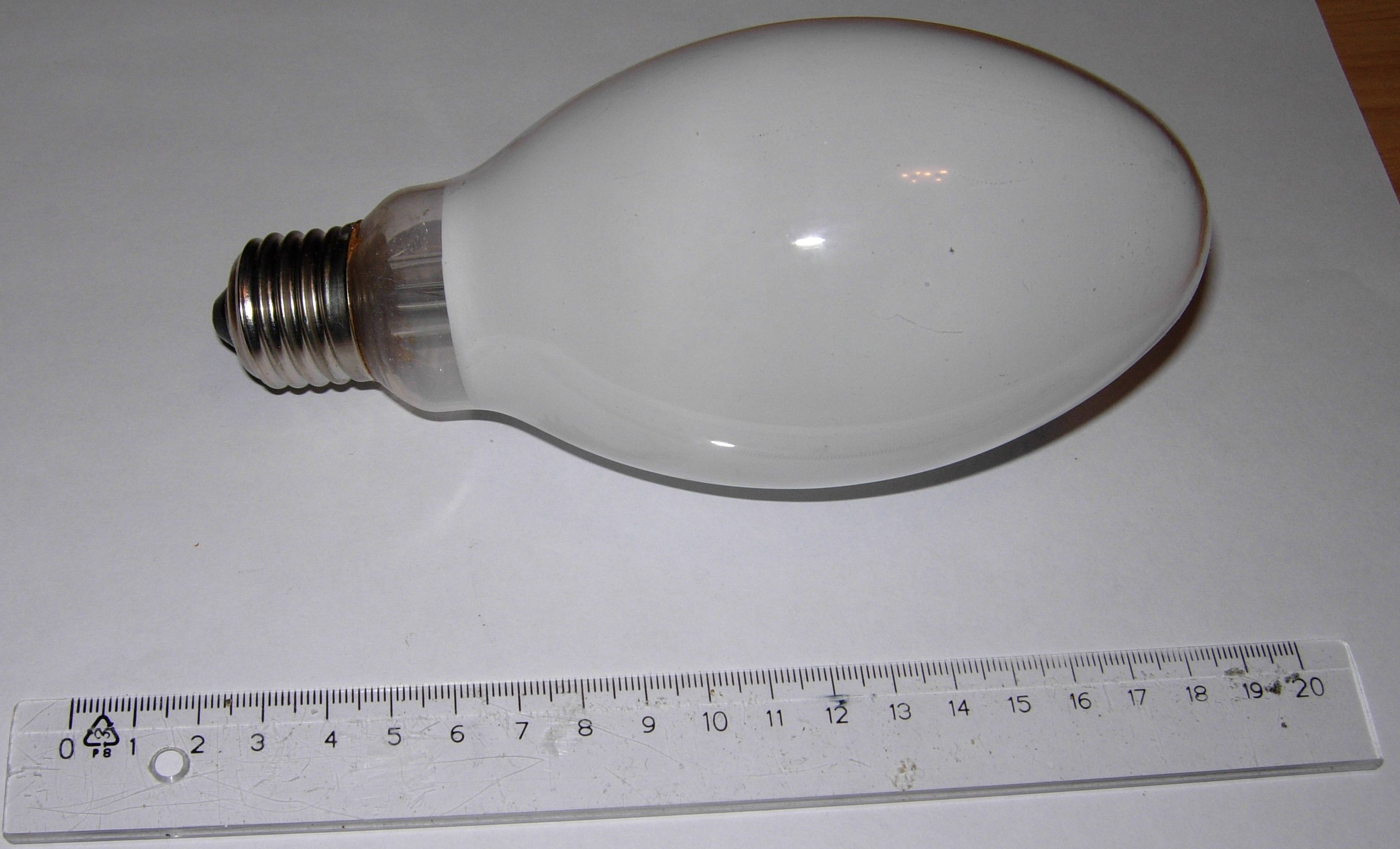 Phosphor coated mercury vapor lamp. 125 watts. Ruler is in centimeters.